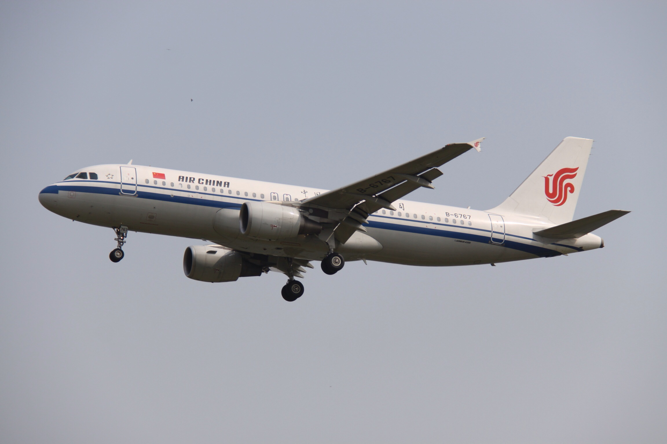 At Beijing Capital